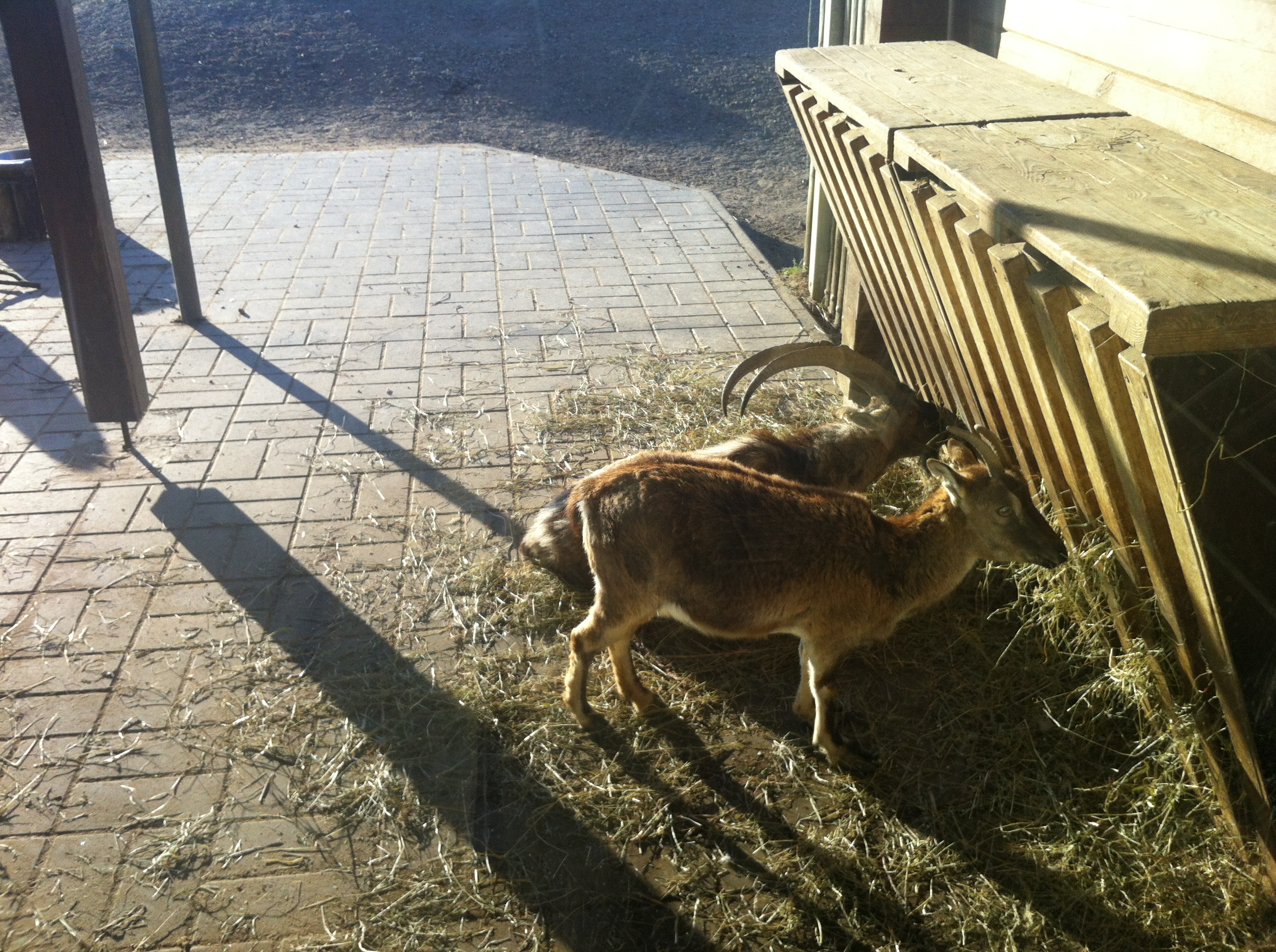 Cretan wild goats at the Tallinn Zoo (Capra hircus cretica)